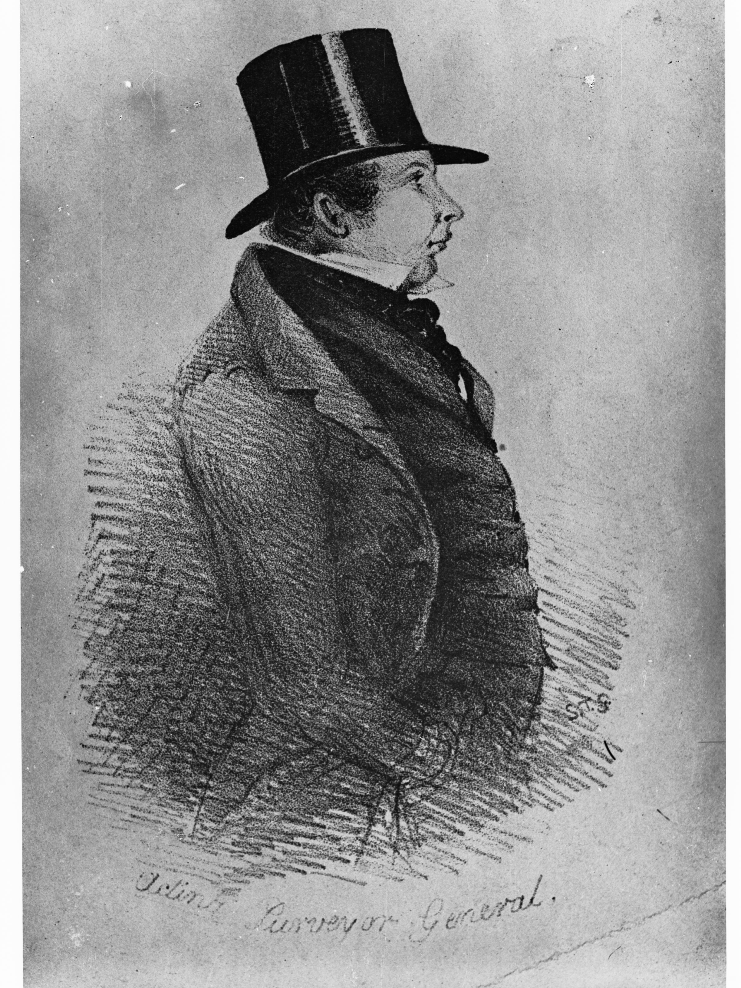 Copied 1922. Coppin was an actor, entrepreneur and owner of Adelaide's leading hostelry, the Auction Mart Tavern (1819-1906) (John Healey - Editor, History SA)